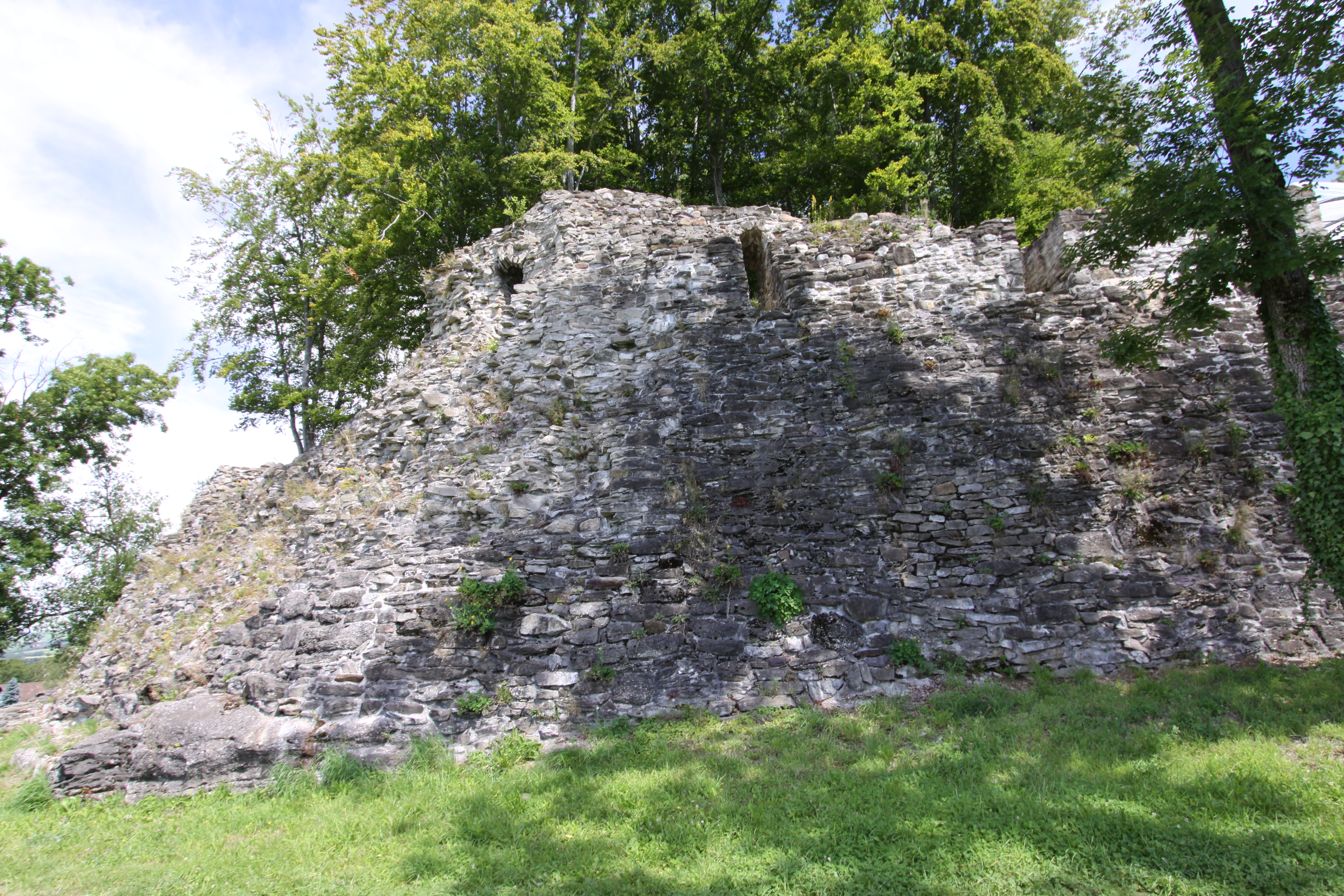 Ruins of Bossonnens Castle, Route de Vevey, Bossonnens